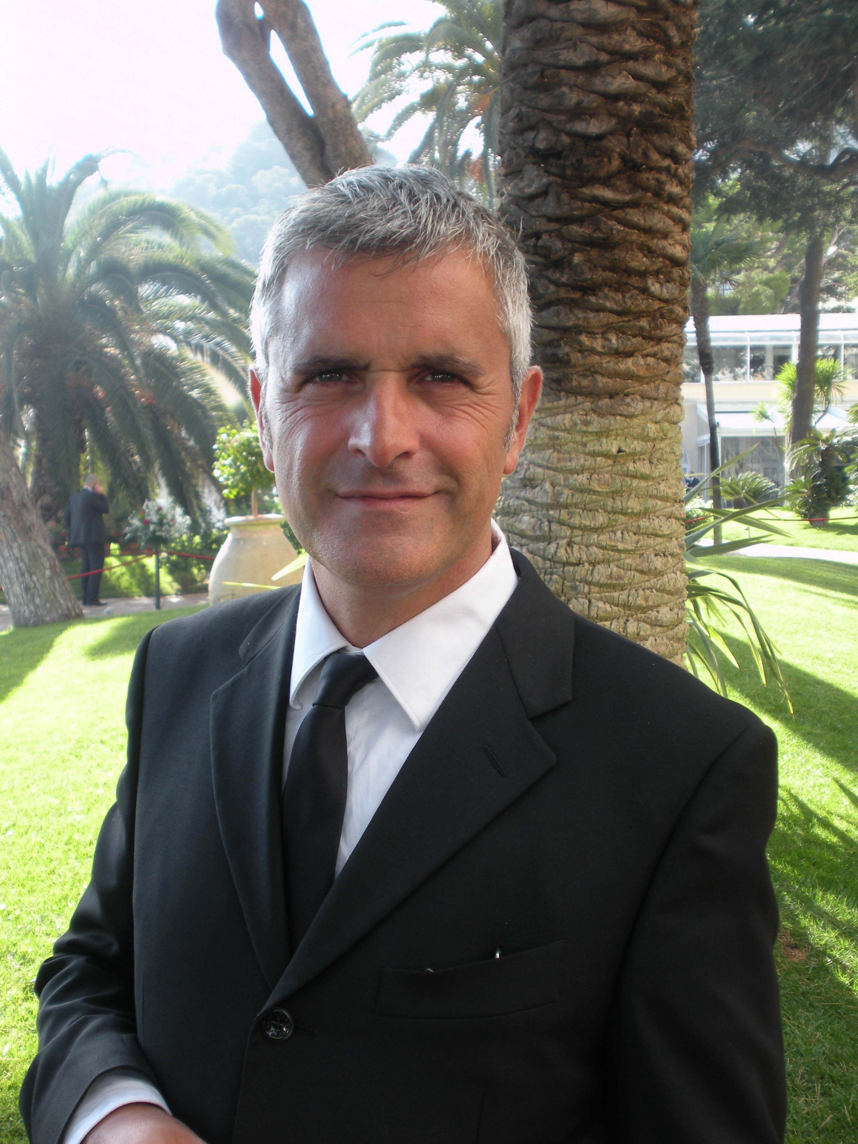 Enrico Lucci, Italian journalist.